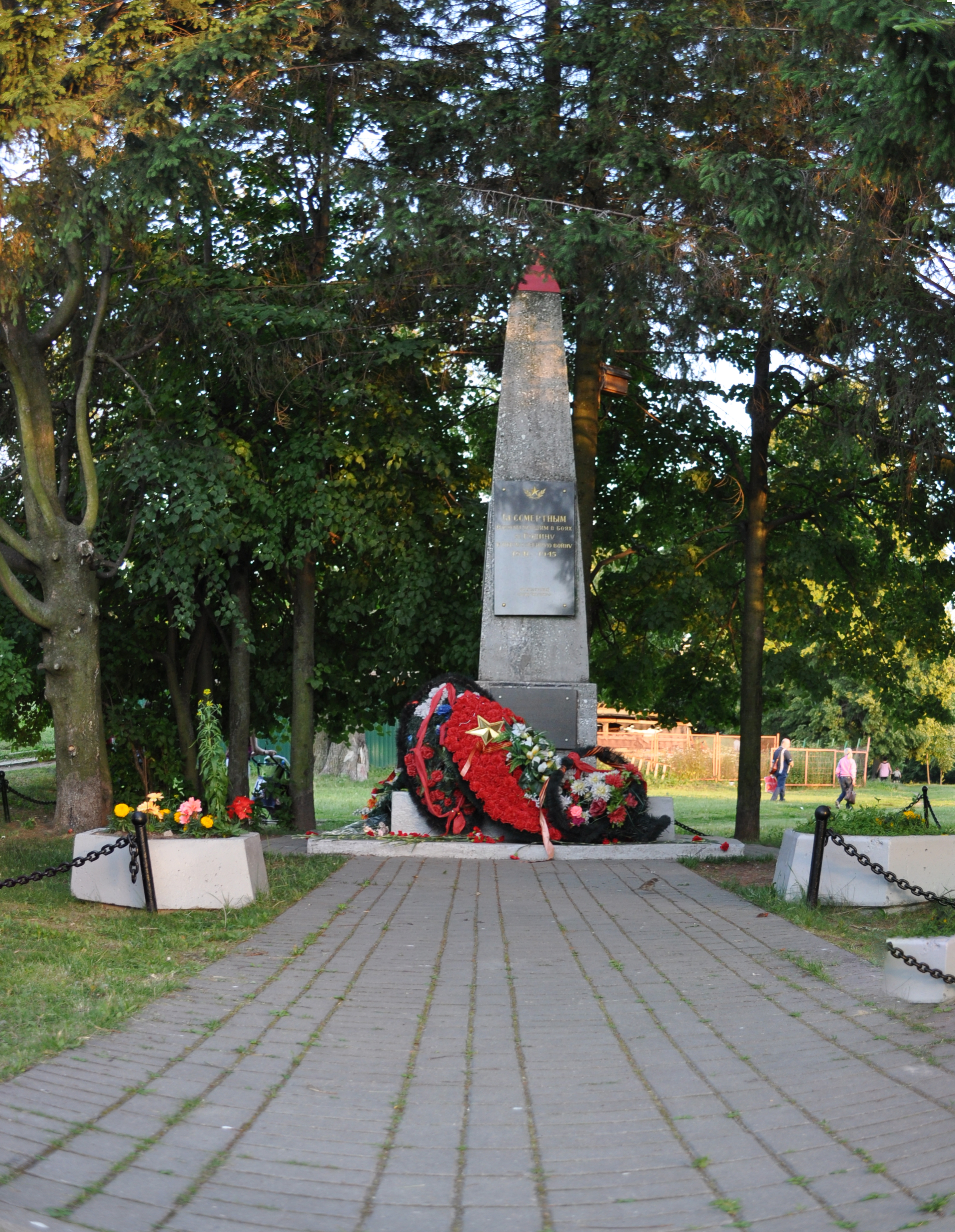 Monument to heroes of World War II in South Butovo